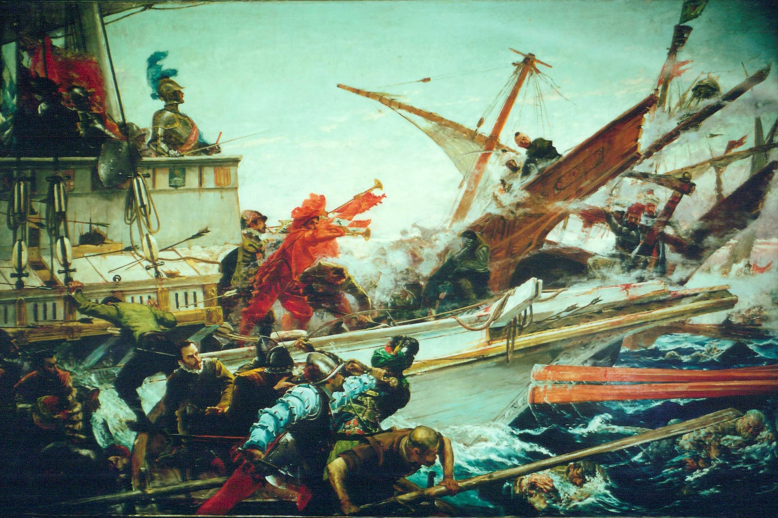 The Naval Battle of Lepanto of 1571 waged by Don John of Austria. Don Juan of Austria in battle, at the bow of the ship, painted by Juan Luna y Novicio.